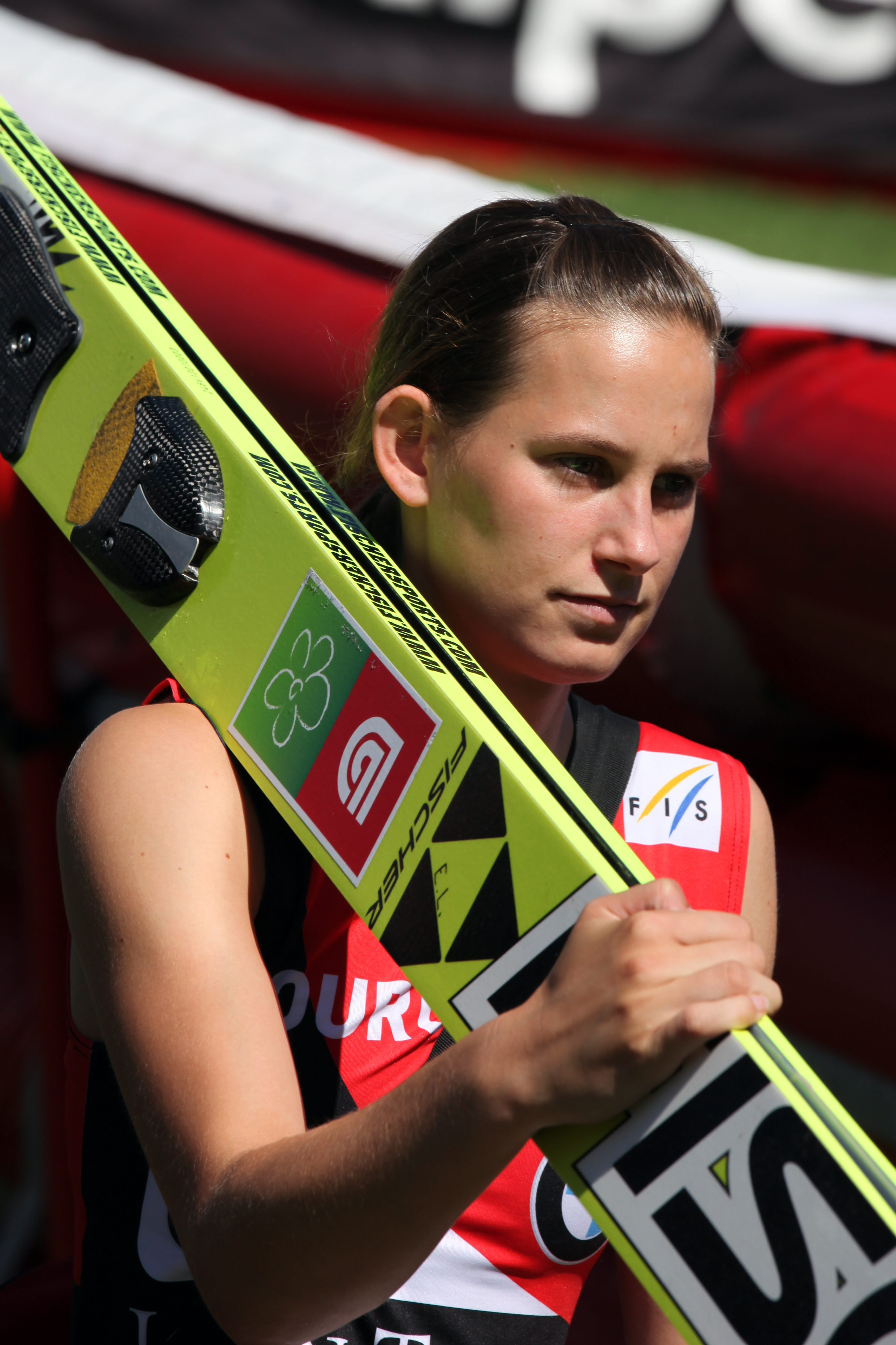 Eva Logar at the Summer Grand Prix ski jumping in Courchevel.